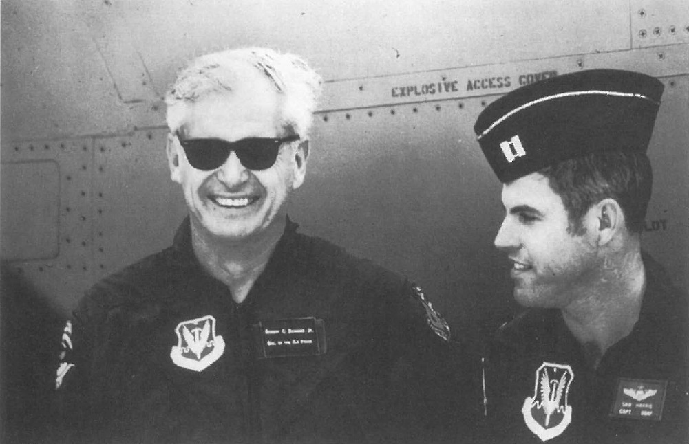 Secretary of The Air Force Robert C. Seamans, Jr. testing a General Dynamics F-111 Aardvark. Secretary Seamans flew at High Altitude with Mach 2 Speed and also testing the F-111 by using an Automatic Terrain Clearance at subsonic speed in order to fly over hills at an altitude of 300 feet.